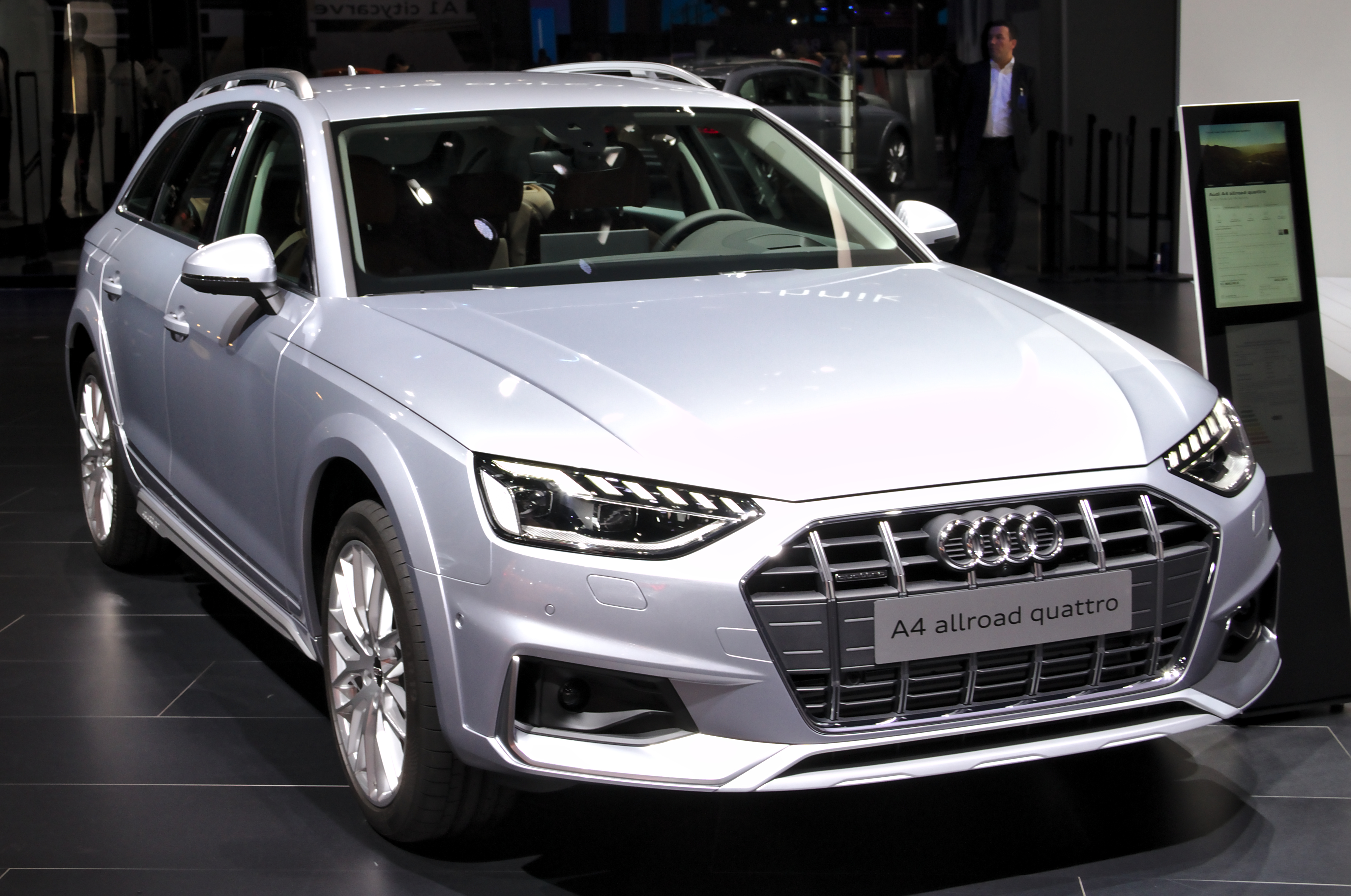 Audi_A4_Allroad_Quattro_B9 at IAA 2019